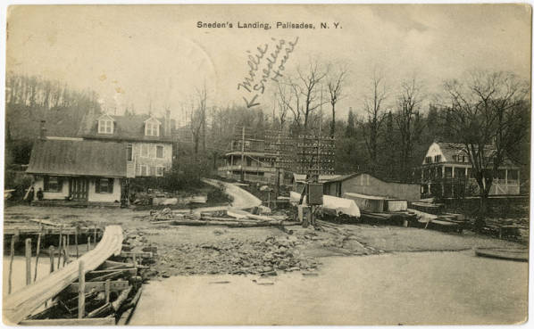 Old postcard of Sneden's Landing on the Hudson River indicating the location of Mollie Sneden's house.